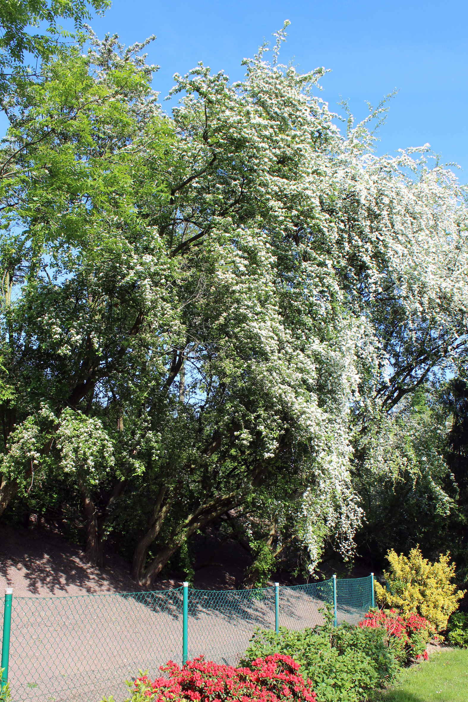 Blooming Crataegus, seen in Düsseldorf.